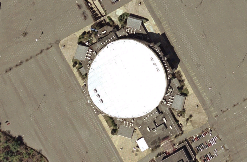 Capital Centre satellite view, Image USGS de Nasa World Wind 1.3.5